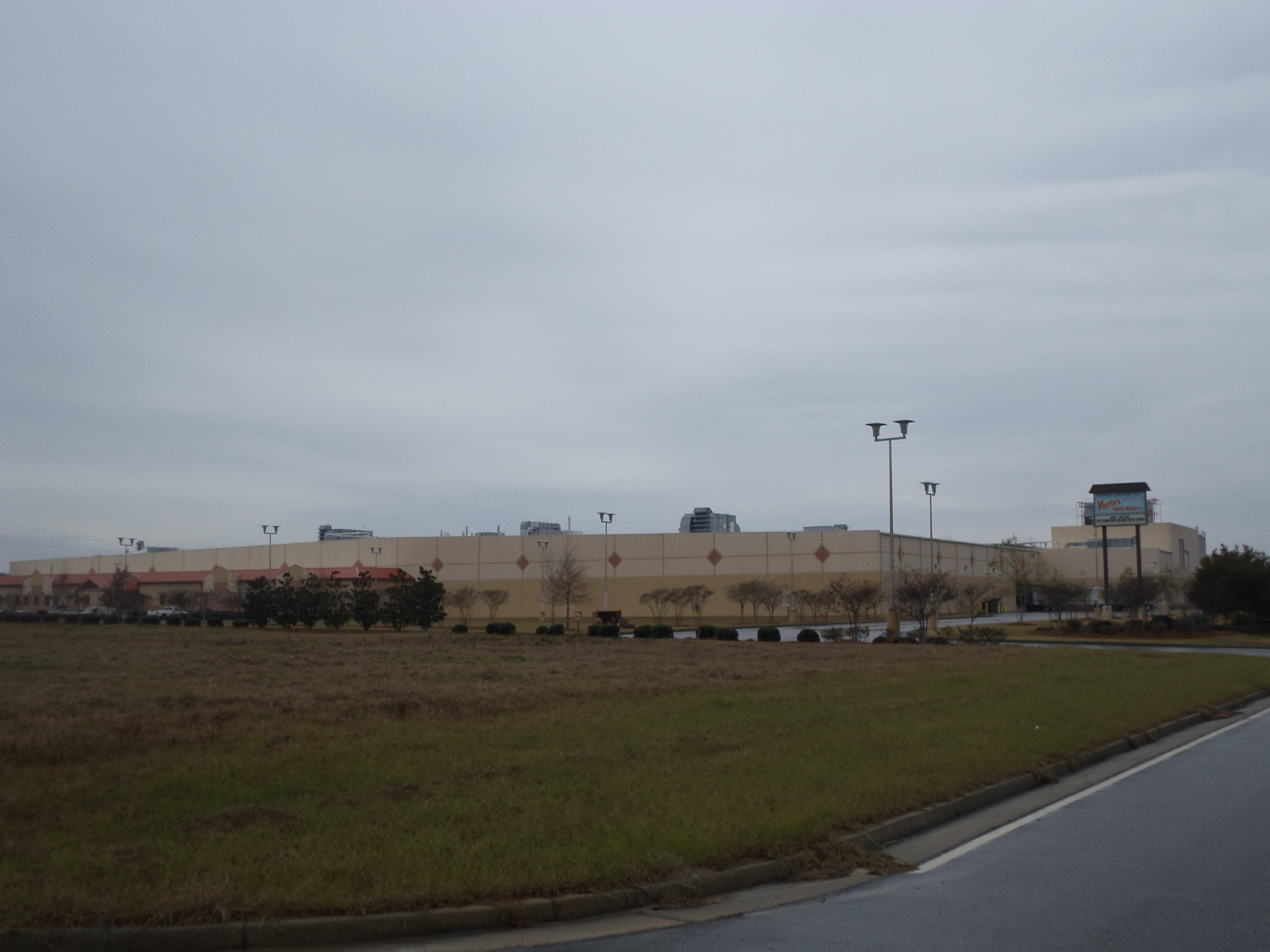 Martin's Famous Pastry Shoppe, 2000 Potato Roll Ln, Valdosta, Lowndes County, Georgia. It has a Valdosta address but is not physically in the city.